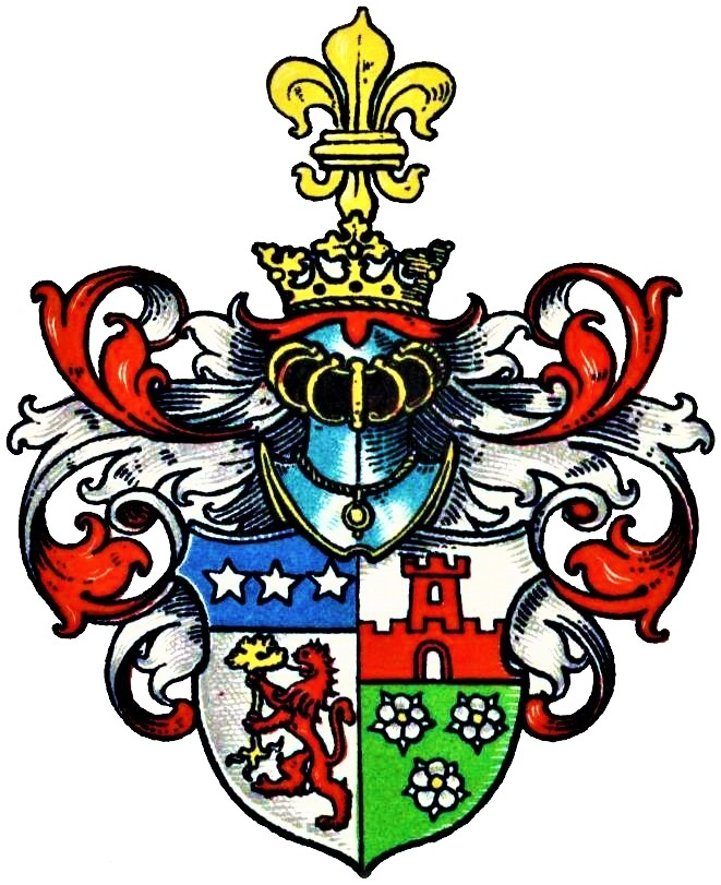 Coat-of-arms Westfalen branch of Forcade-Biaix